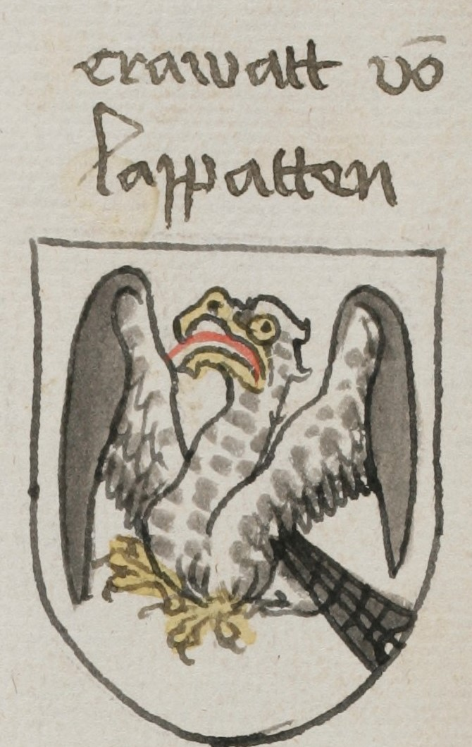 Wappenbuch des St. Galler Abtes Ulrich Rösch; Stiftsbibliothek St. Gallen, Cod. sang. 1084